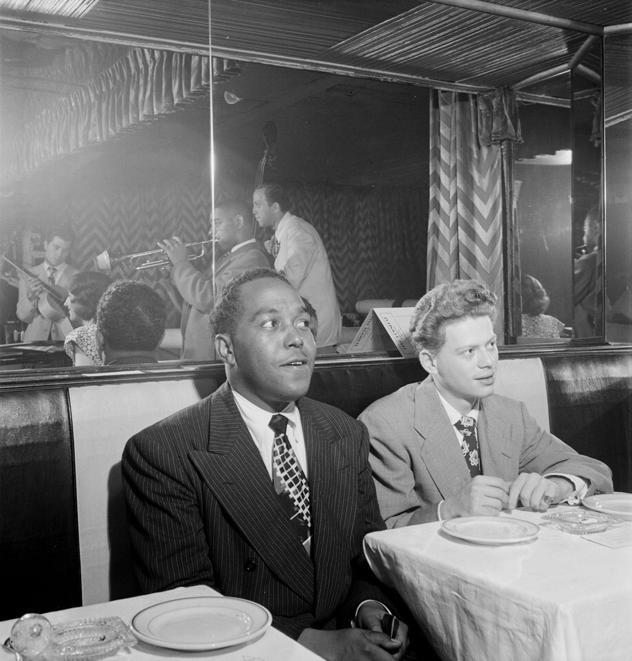 Charlie Parker and Red Rodney, (in the mirror:) Dizzy Gillespie, Margie Hyams, and Chuck Wayne, Downbeat, New York, N.Y., ca. 1947 (Photograph by William P. Gottlieb)